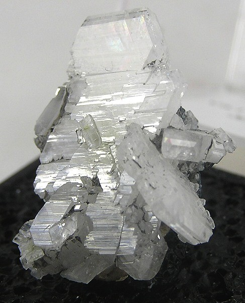 Albite Locality: Chisone Valley, Torino Province, Piedmont, Italy (Locality at ) A rare and unusually aesthetic Italian albite cluster, a fine thumber for this material, appearing almost reticulated like a Tsumeb cerrusite due to the parallel growth patterns. 2.4 x 1.7 x 1.1 cm